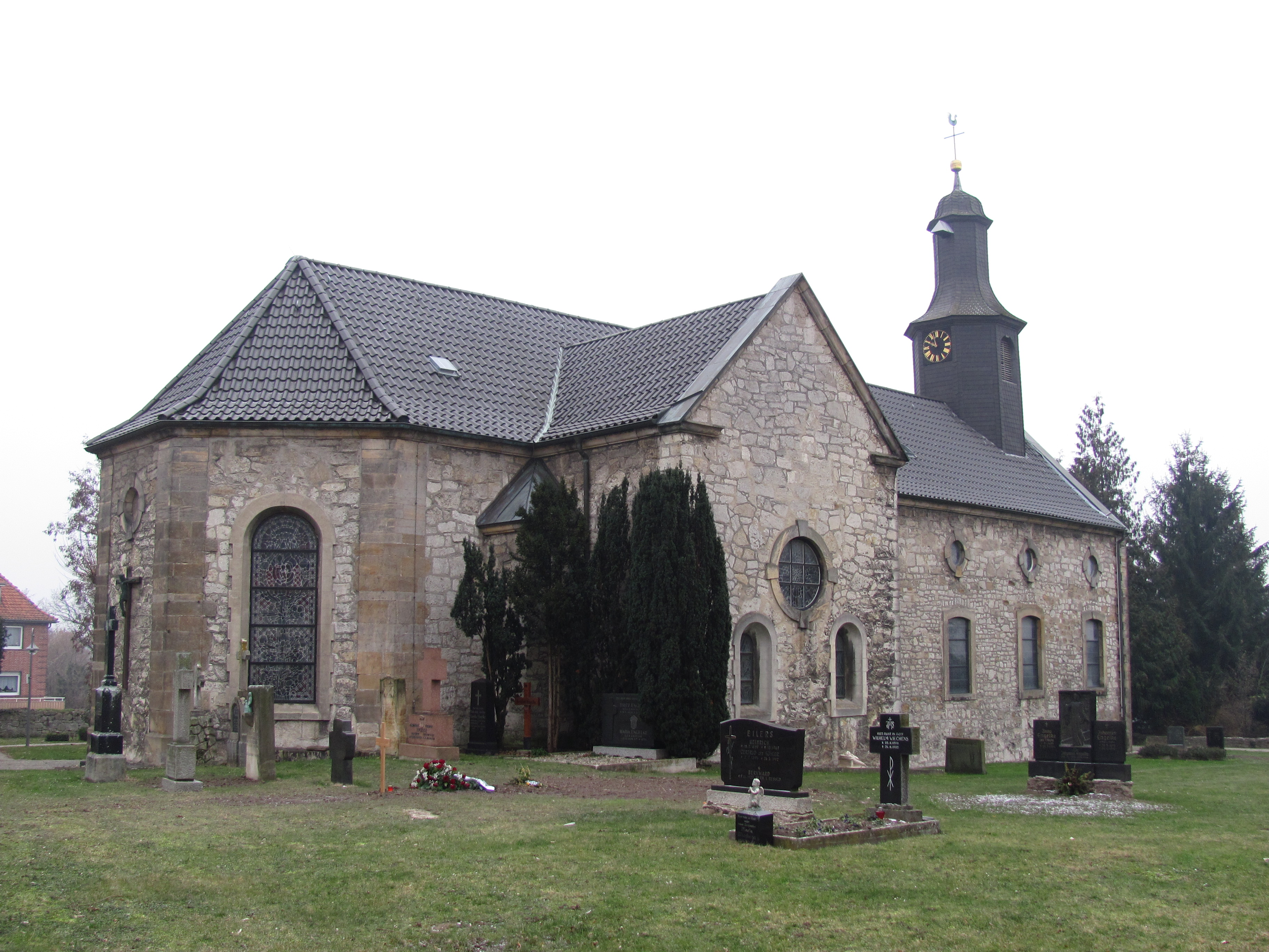 Saint Andrew's Catholic Church, Giesen-Hasede, Lower Saxony, Germany